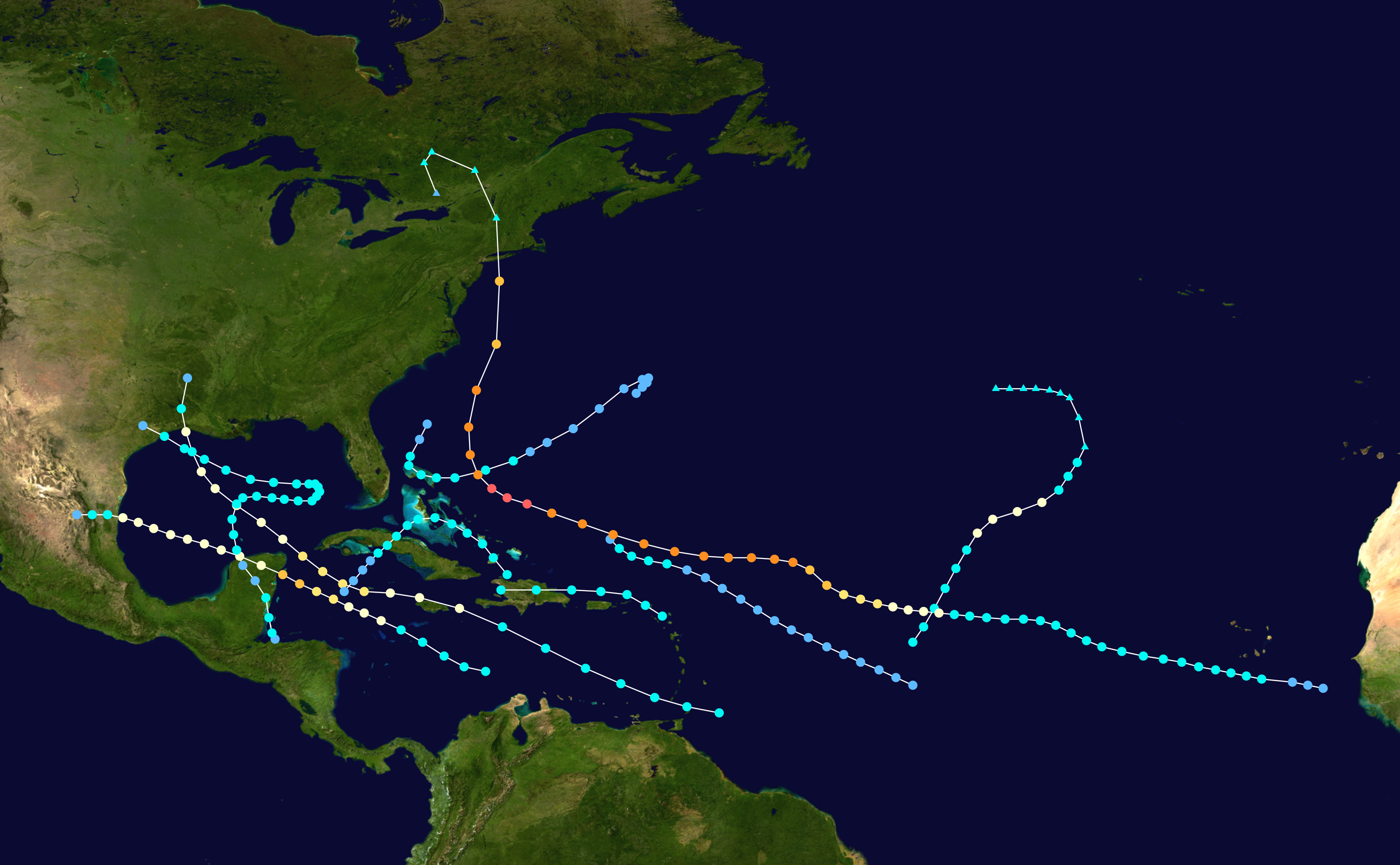 Track map of all storms of the 1938 Atlantic hurricane season. The points show the location of the storm at 6-hour intervals. The colour represents the storm's maximum sustained wind speeds as classified in the Saffir–Simpson hurricane wind scale (see below), and the shape of the data points represent the nature of the storm, according to the legend below. Saffir–Simpson hurricane wind scale Tropical depression≤38 mph≤62 km/h Category 3111–129 mph178–208 km/h Tropical storm39–73 mph63–118 km/h Category 4130–156 mph209–251 km/h Category 174–95 mph119–153 km/h Category 5≥157 mph≥252 km/h Category 296–110 mph154–177 km/h Unknown Storm typeTropical cycloneSubtropical cycloneExtratropical cyclone / Remnant low / Tropical disturbance